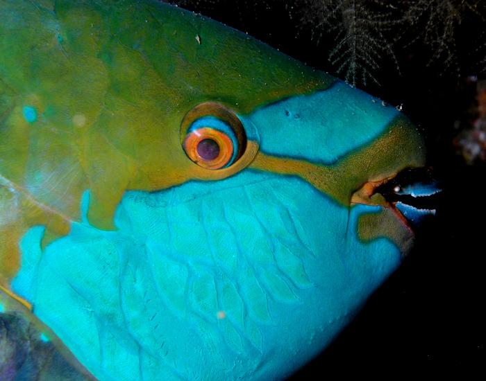 Parrotfish in hiding at night from East Timor